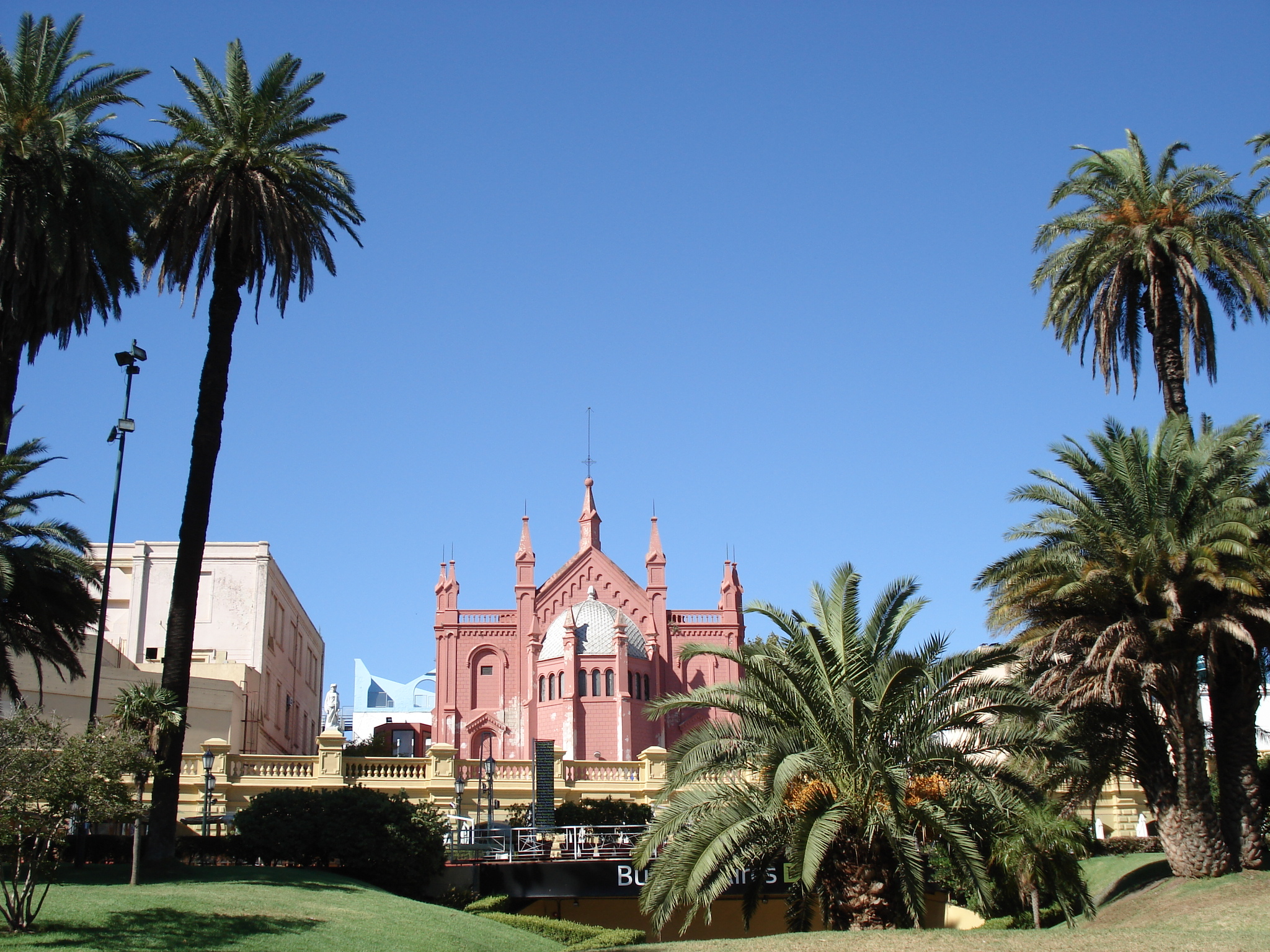 The Aleph Auditorium, Buenos Aires Design Centre, and Alvear Plaza. Recoleta, Buenos Aires